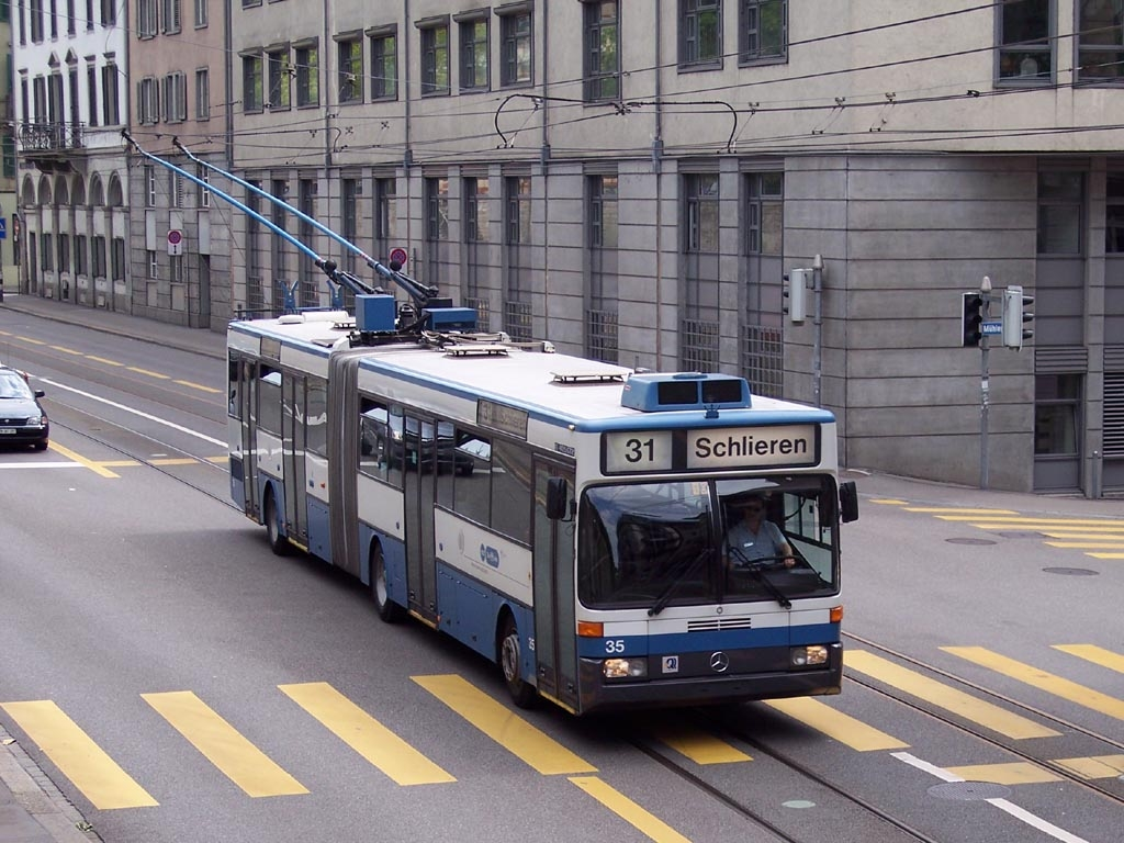 Between 1988 and 1994, Zürich replaced its entire trolleybus fleet with Mercedes-Benz O 405 GTZ artics. This is number 35 from the first batch on route 31 between Neumarkt and Central.